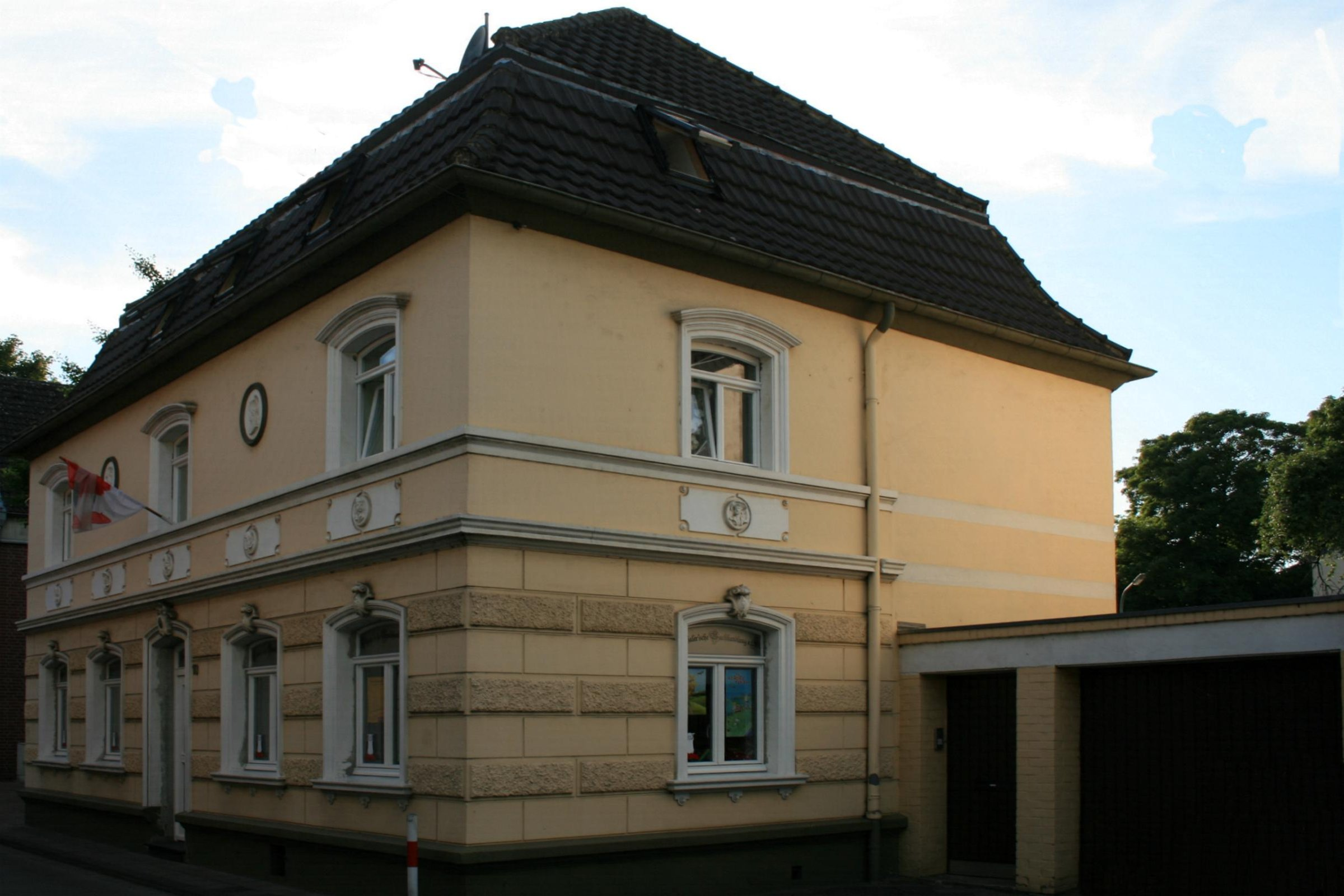 Cultural heritage monument No. K 093 in Mönchengladbach